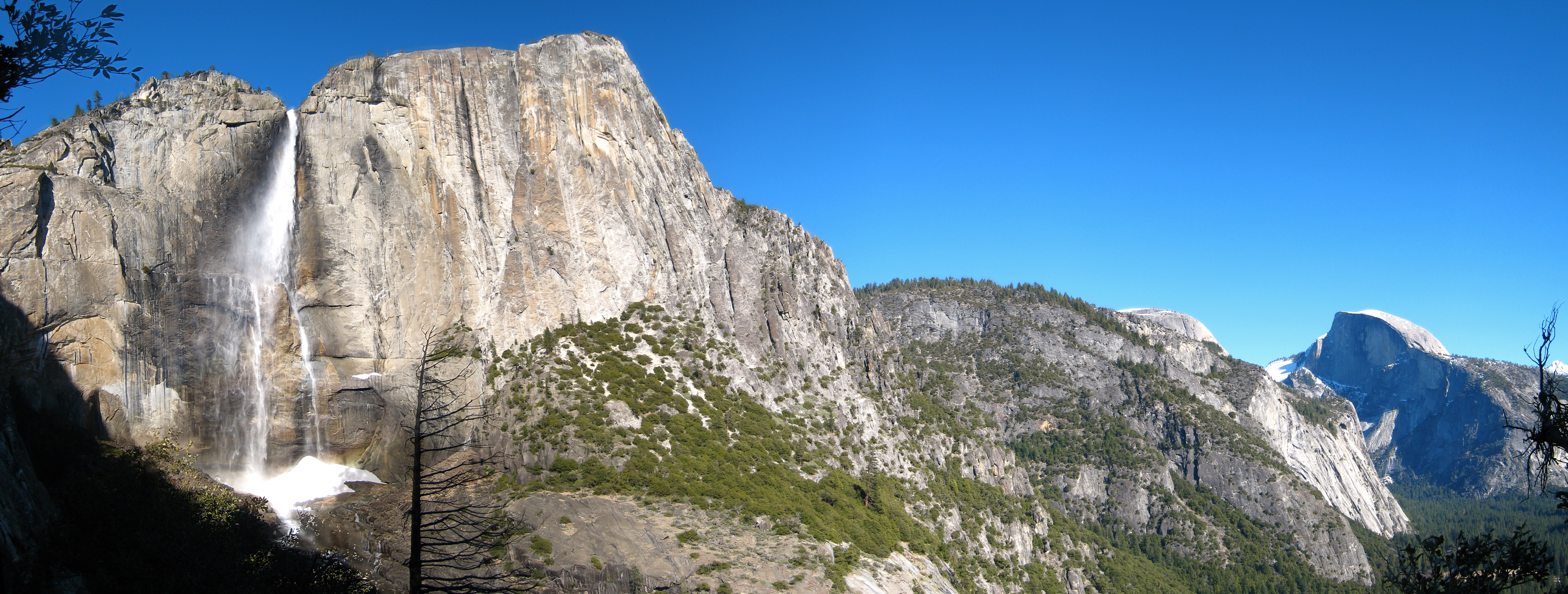 Upper Yosemite Falls + Half Dome, California Stitched with Calico Panorama (~20 MegaPixels)